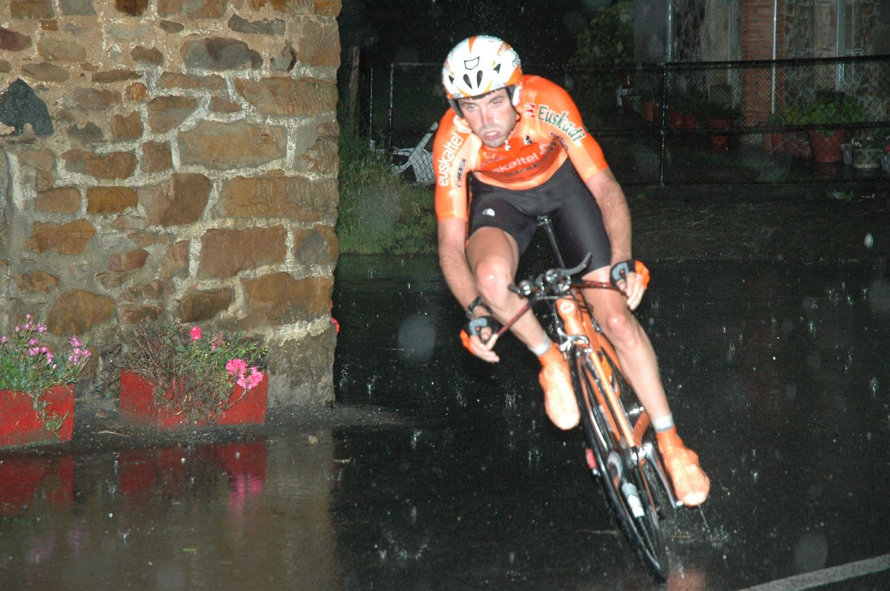 Samuel Sanchez